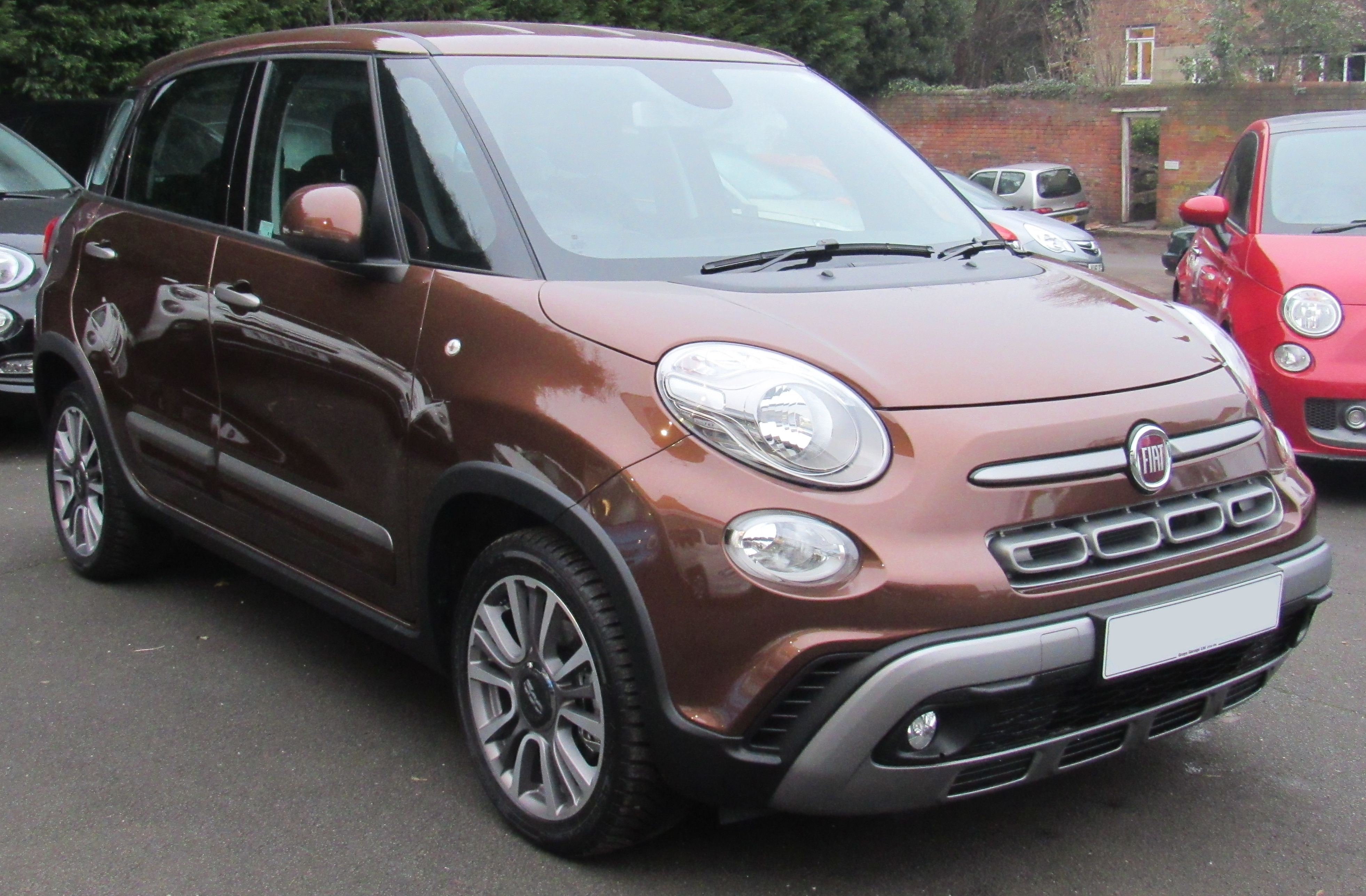 2018 Fiat 500L Cross facelift 1.4 Front Taken in Warwick